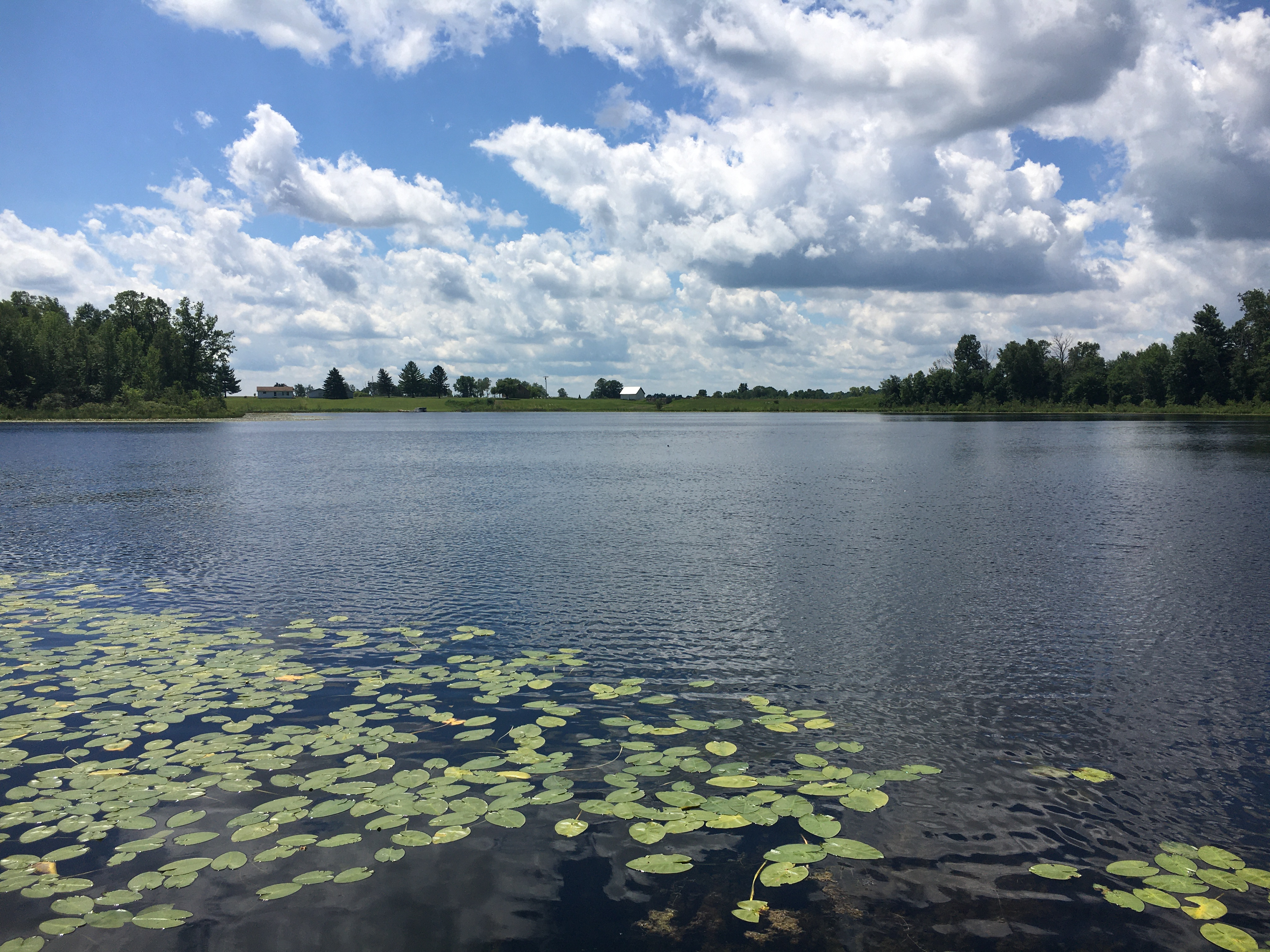 Tee Lake near West Branch, Michigan